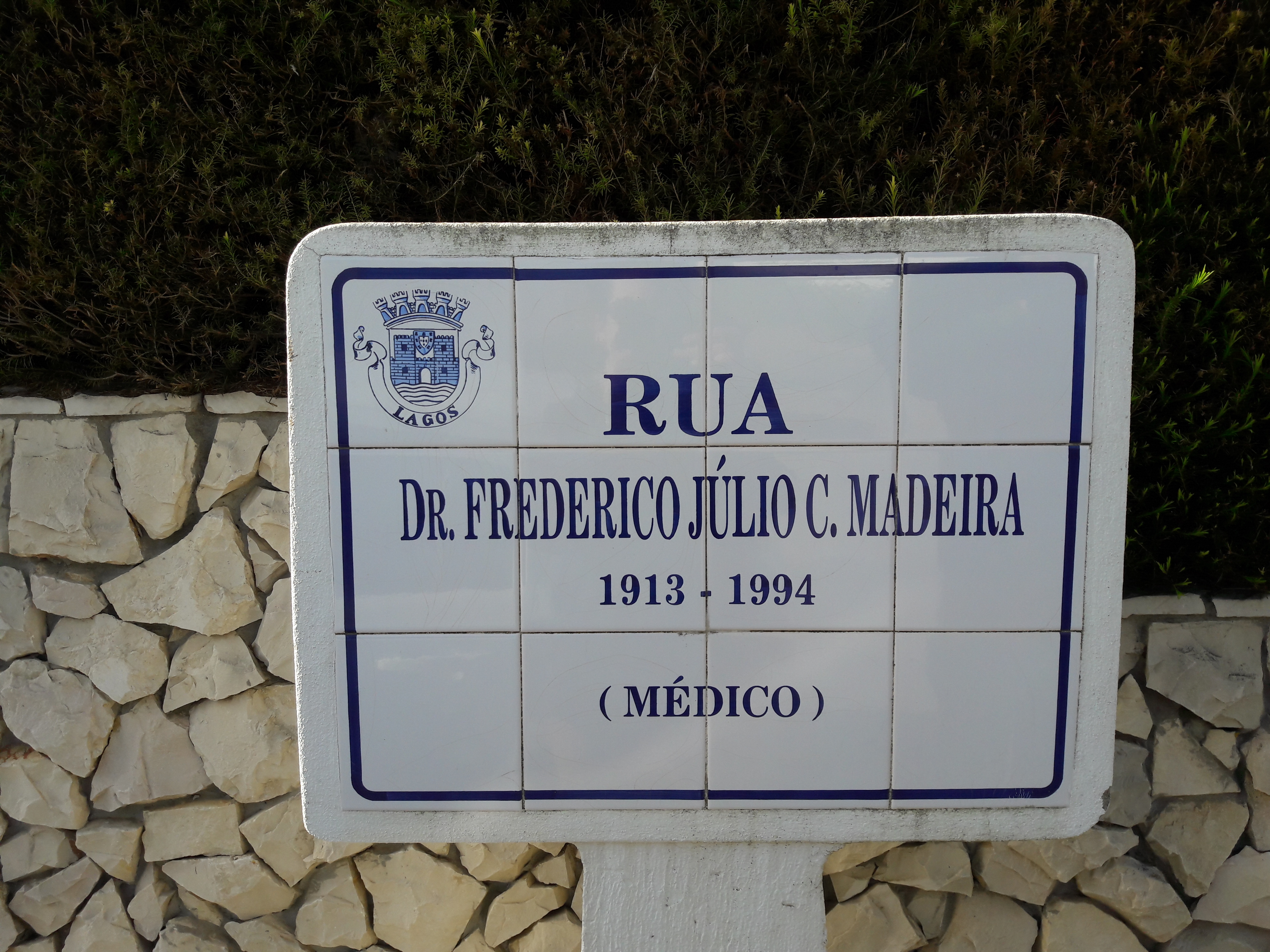 Street sign of Rua Dr. Frederico Julio C. Madeira, in the city of Lagos, in southern Portugal.